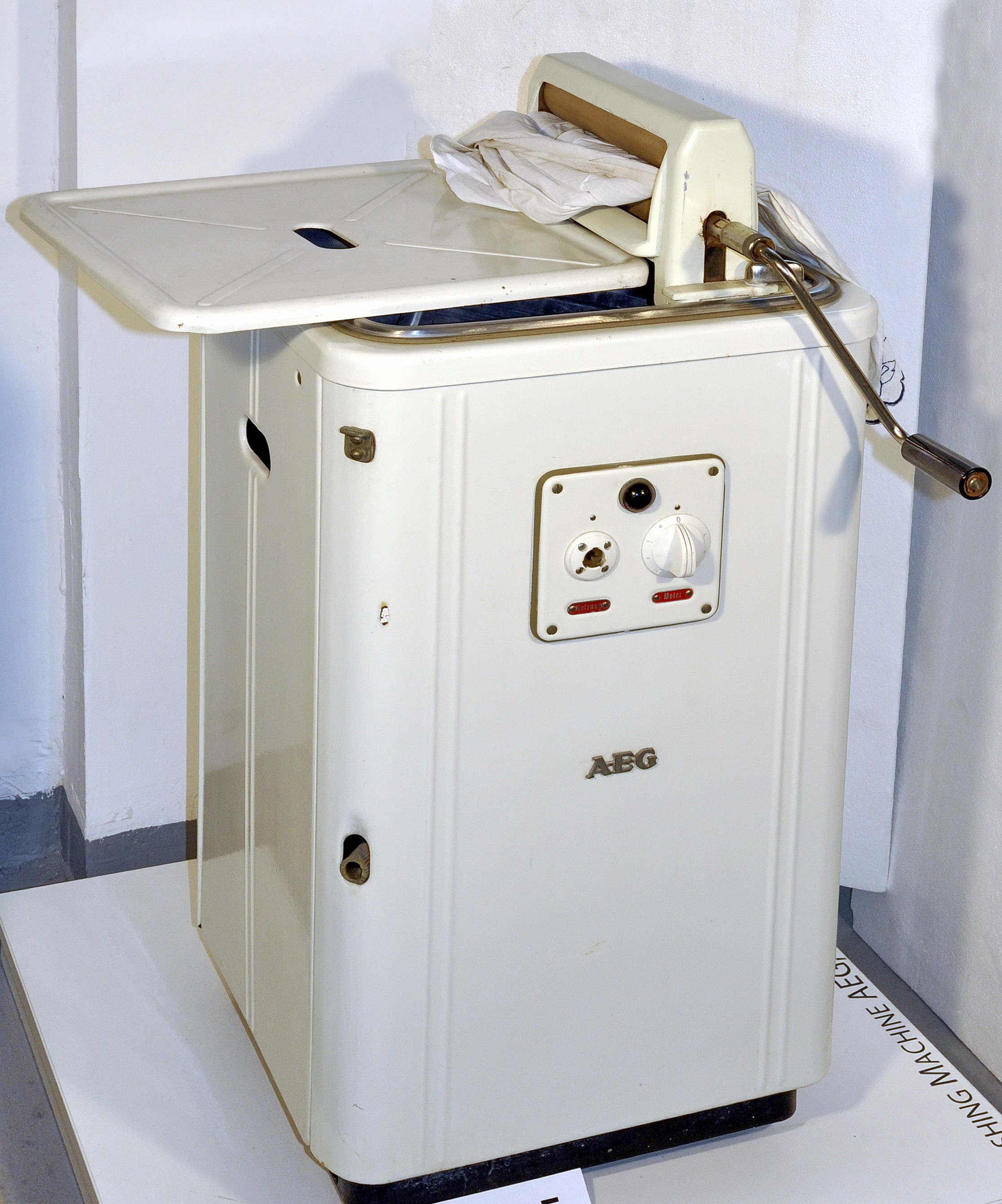 AEG washing machine from 1957.